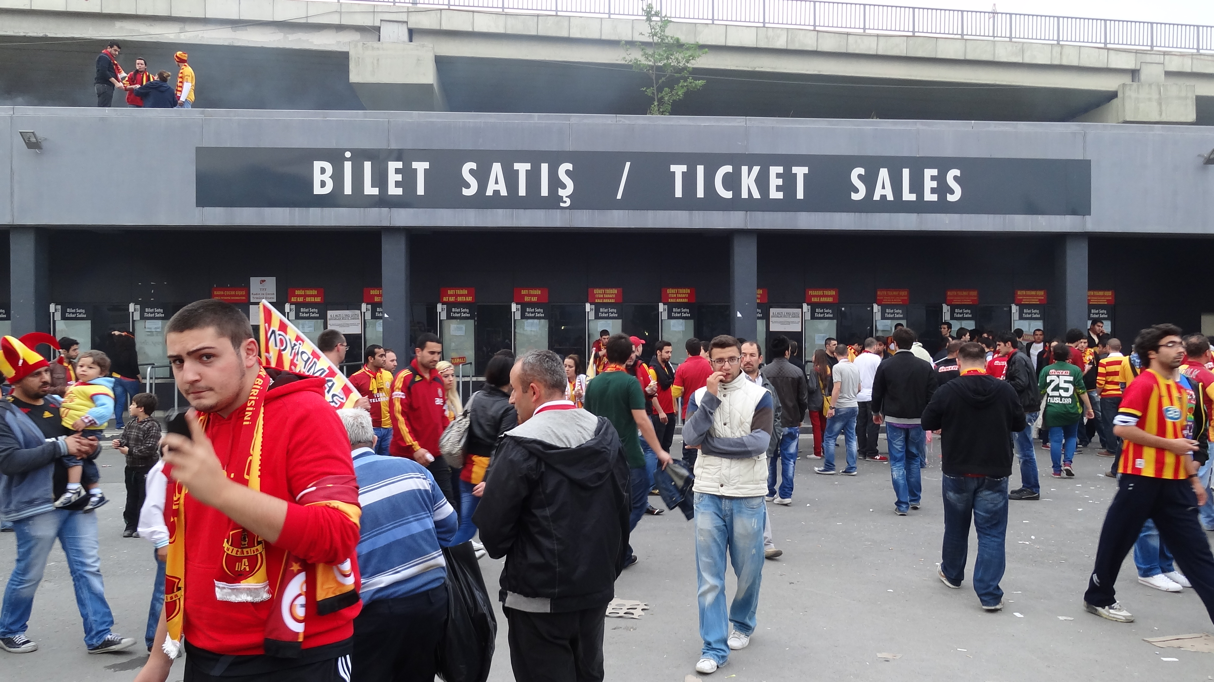 Ali Sami Yen Spor Kompleksi Aslanlı Yol Ticket Sales